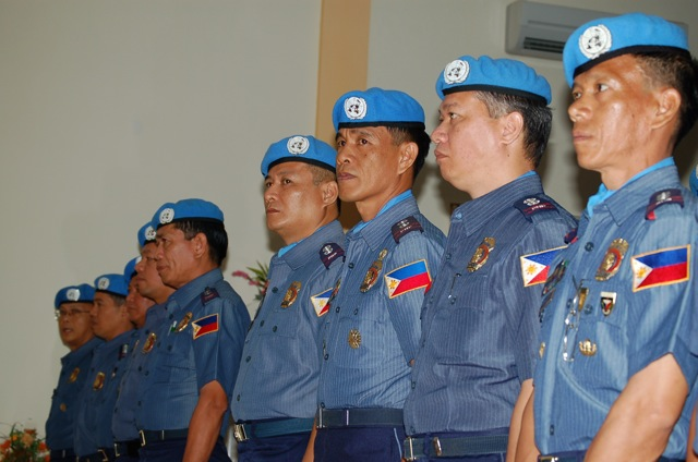 Philippine National Police officers wearing UN berets as they were on duty in East Timor.